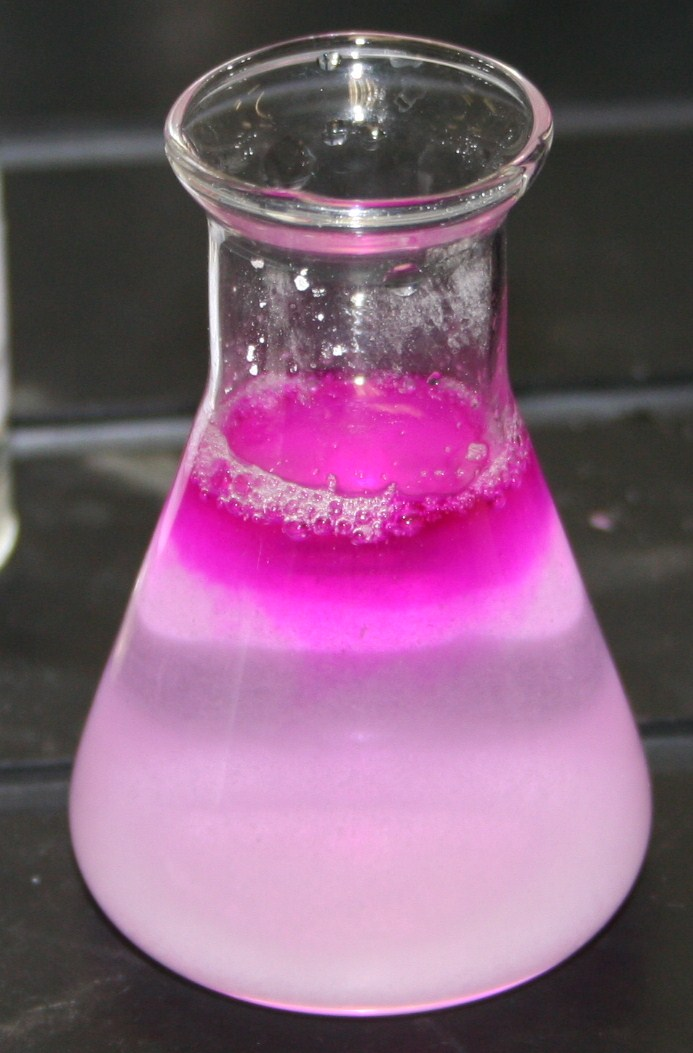 An acid-base titration using phenolphthalein as the indicator. The conical flask contained solution that just reached the endpoint.